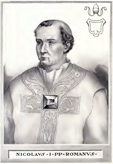 This illustration is from The Lives and Times of the Popes by Chevalier Artaud de Montor, New York: The Catholic Publication Society of America, 1911. It was originally published in 1842.